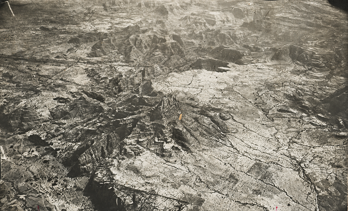 Imba Kernale 1936